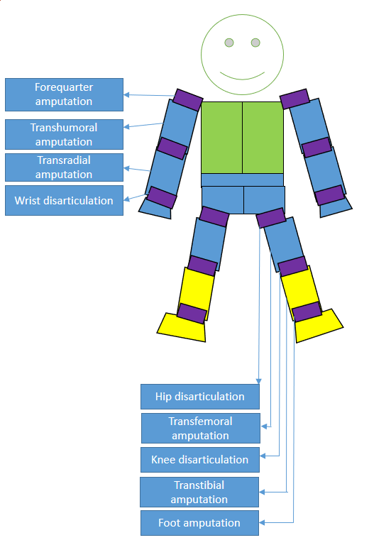 Amputee sport related classification illustration using the ISOD/IWAS classification system.